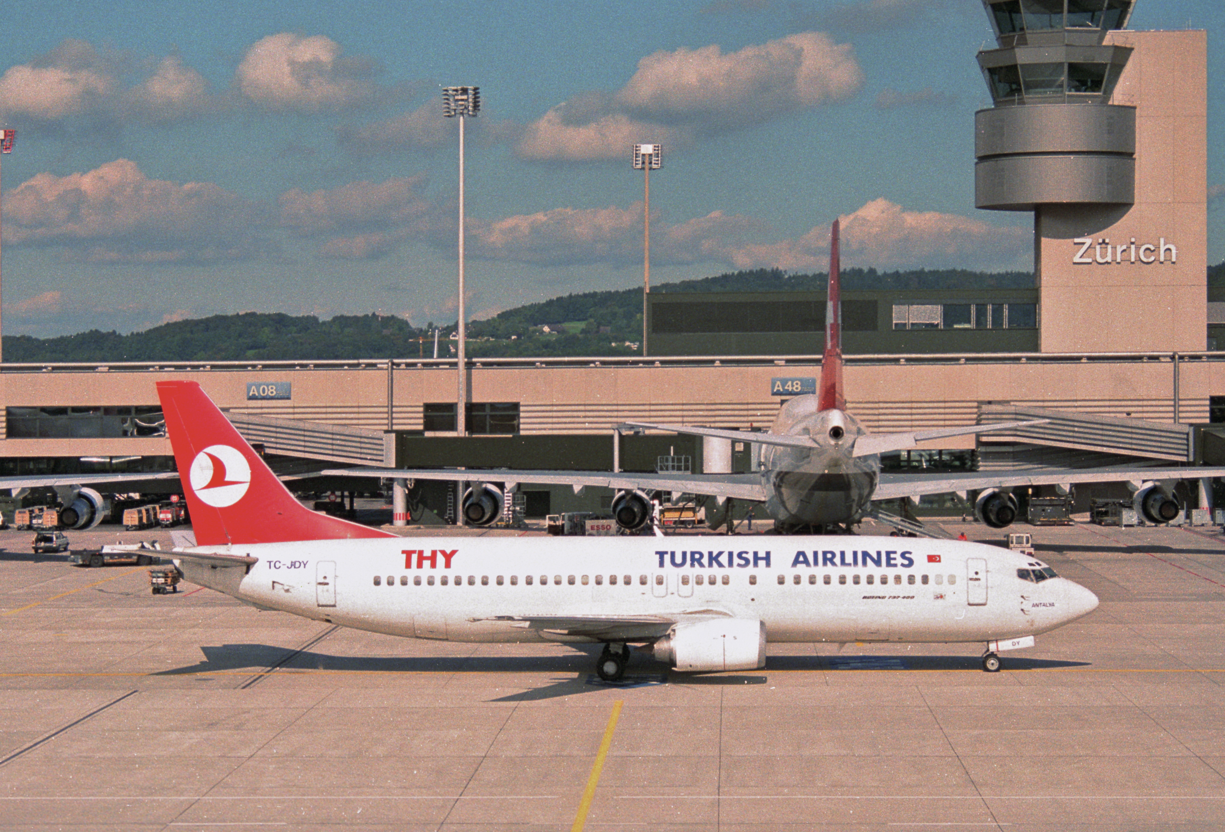 Turkish Airlines Boeing 737-400; TC-JDY@ZRH;02.10.1995